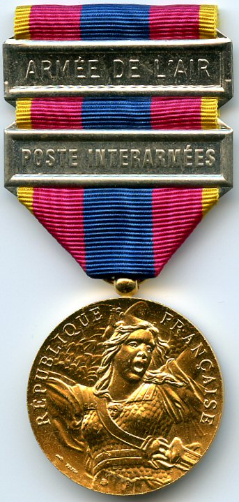 National Defense Medal (gold) (France)